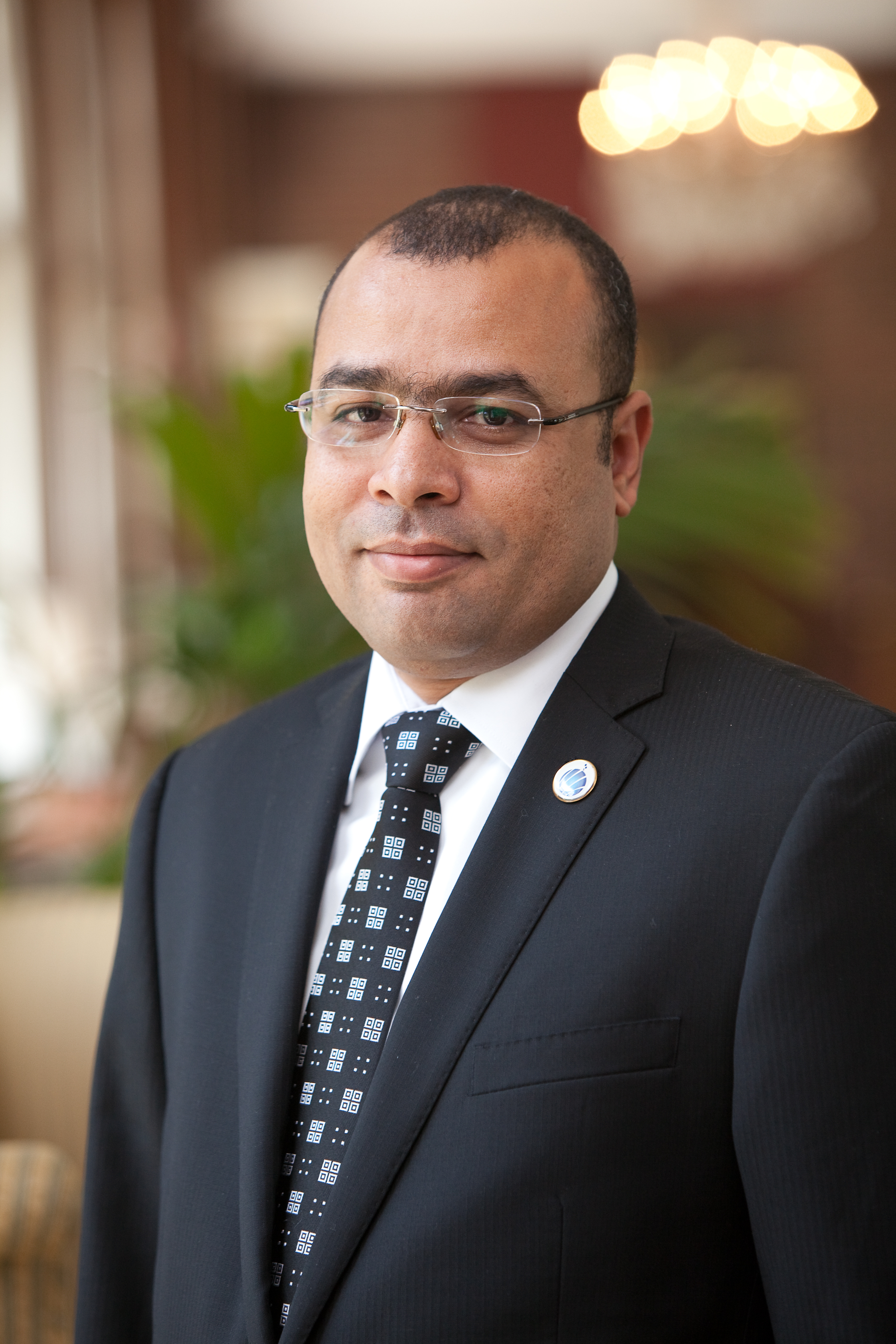 Ahmed Mekky CEO and Board Member Gulf bridge International